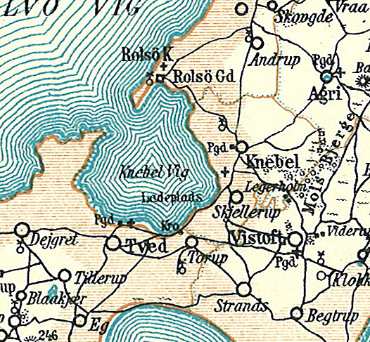 Knebel Vig in Denmark